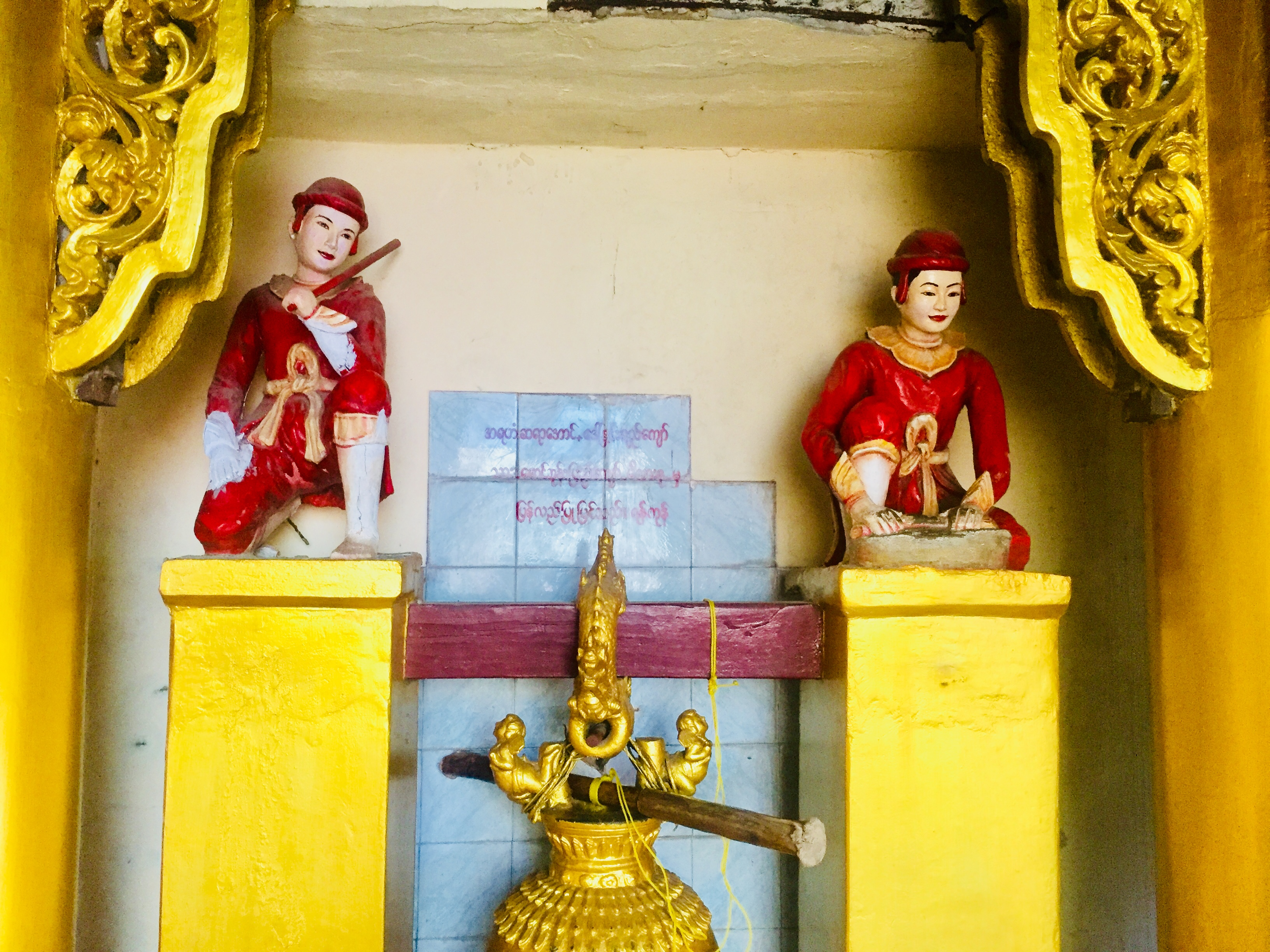 Zaw Gyi